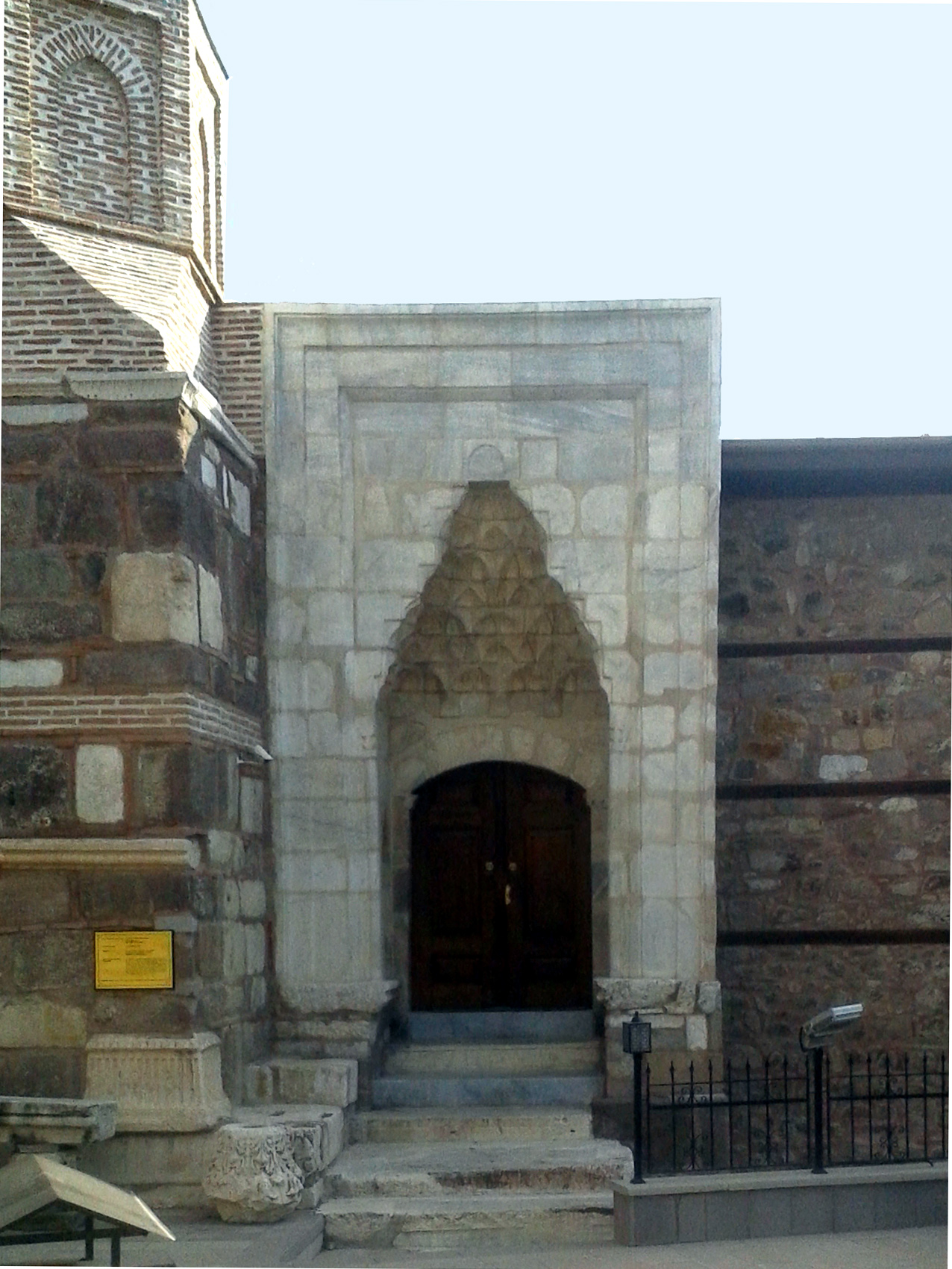 Aslanhane Mosque portal